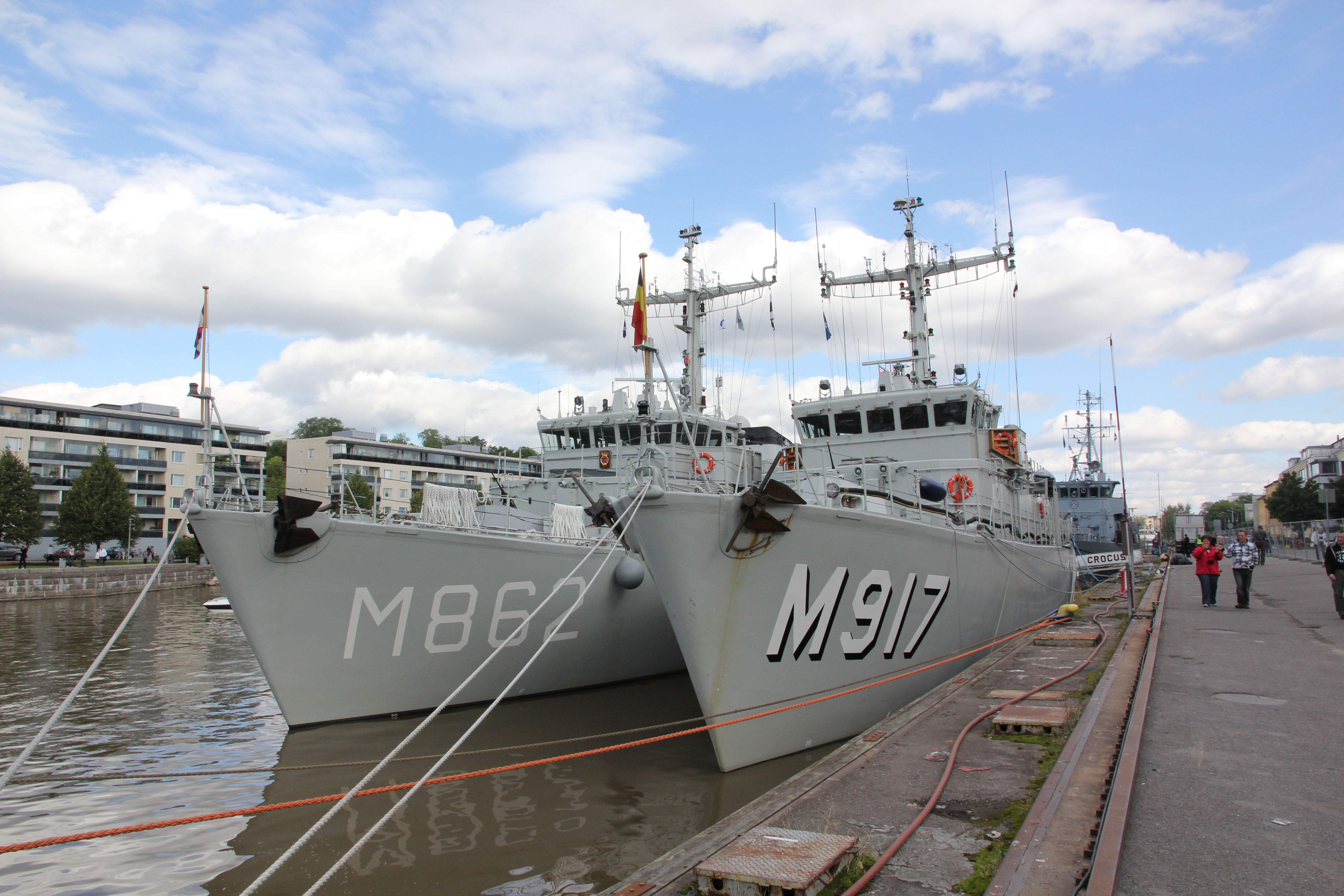 Belgian and Dutch Tripartite-class minehunters M917 Crocus and M862 Zierikzee photographed during the Northern Coasts 2014 exercise public pre sail event in Aura river in Turku.